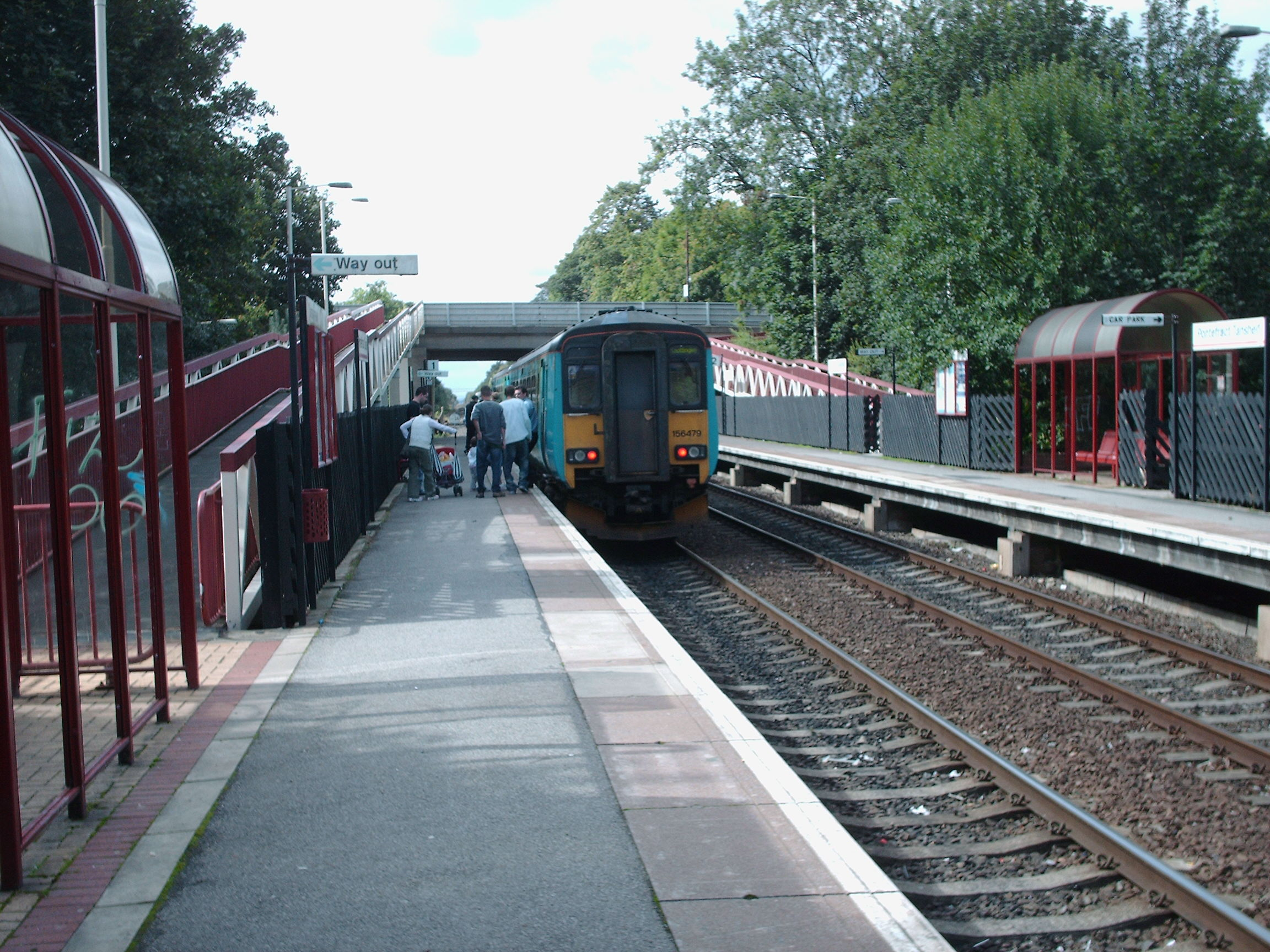 Pontefract Tanshelf railway station, West Yorkshire, England. 156479 in Arriva livery.